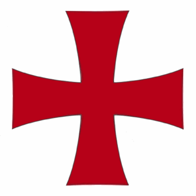 Cross of the Masonic Knights Templar as used in independent Templar Masonry (as opposed to Templar Masonry as part of the York Rite).